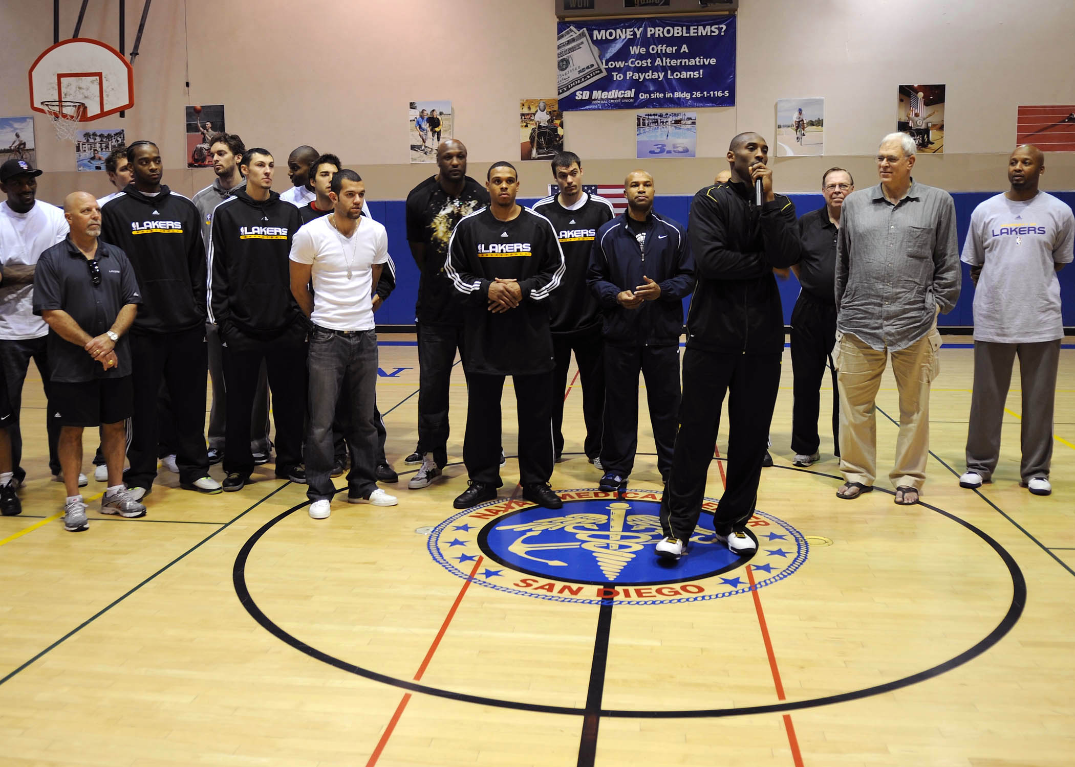 SAN DIEGO (Oct. 23, 2009) - NBA star Kobe Bryant stands in front of his Los Angeles Lakers teammates in the Naval Medical Center San Diego gym while thanking service members for their service. During a surprise visit, players and coaches signed autographs and posed for pictures with patients and staff. The Lakers are in San Diego for a preseason exhibition game against the Denver Nuggets. (